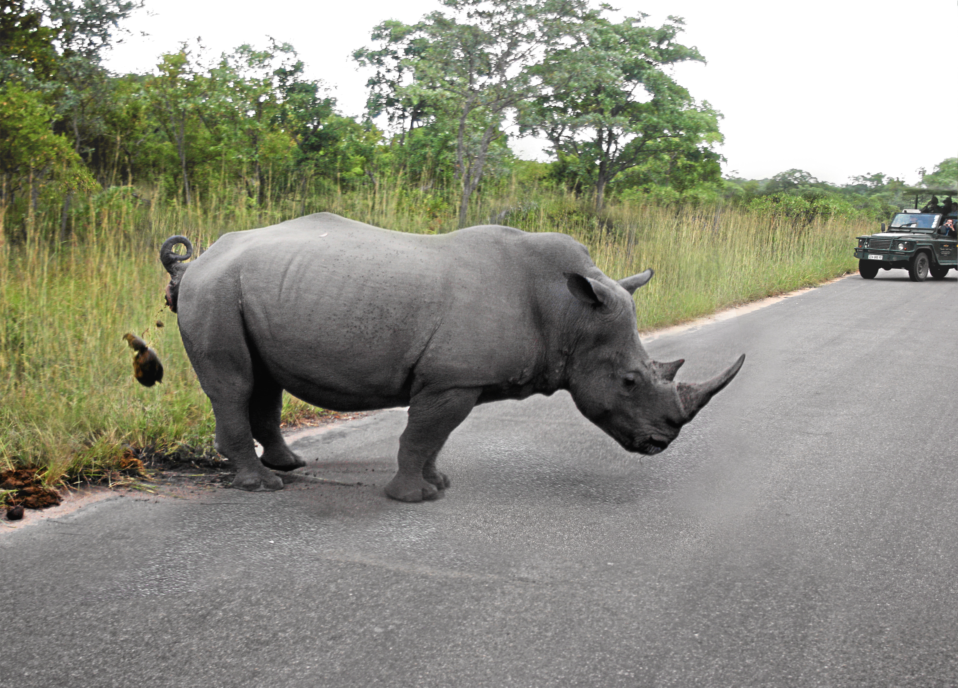 A white rhinoceros (Ceratotherium simum) in Kruger National Park marking its territory.